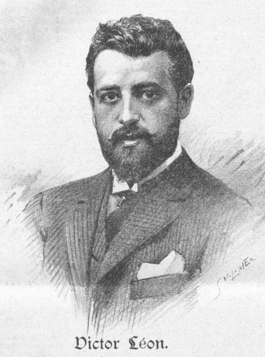 Portrait of Victor Léon (1858-1940), Austrian writer and librettist